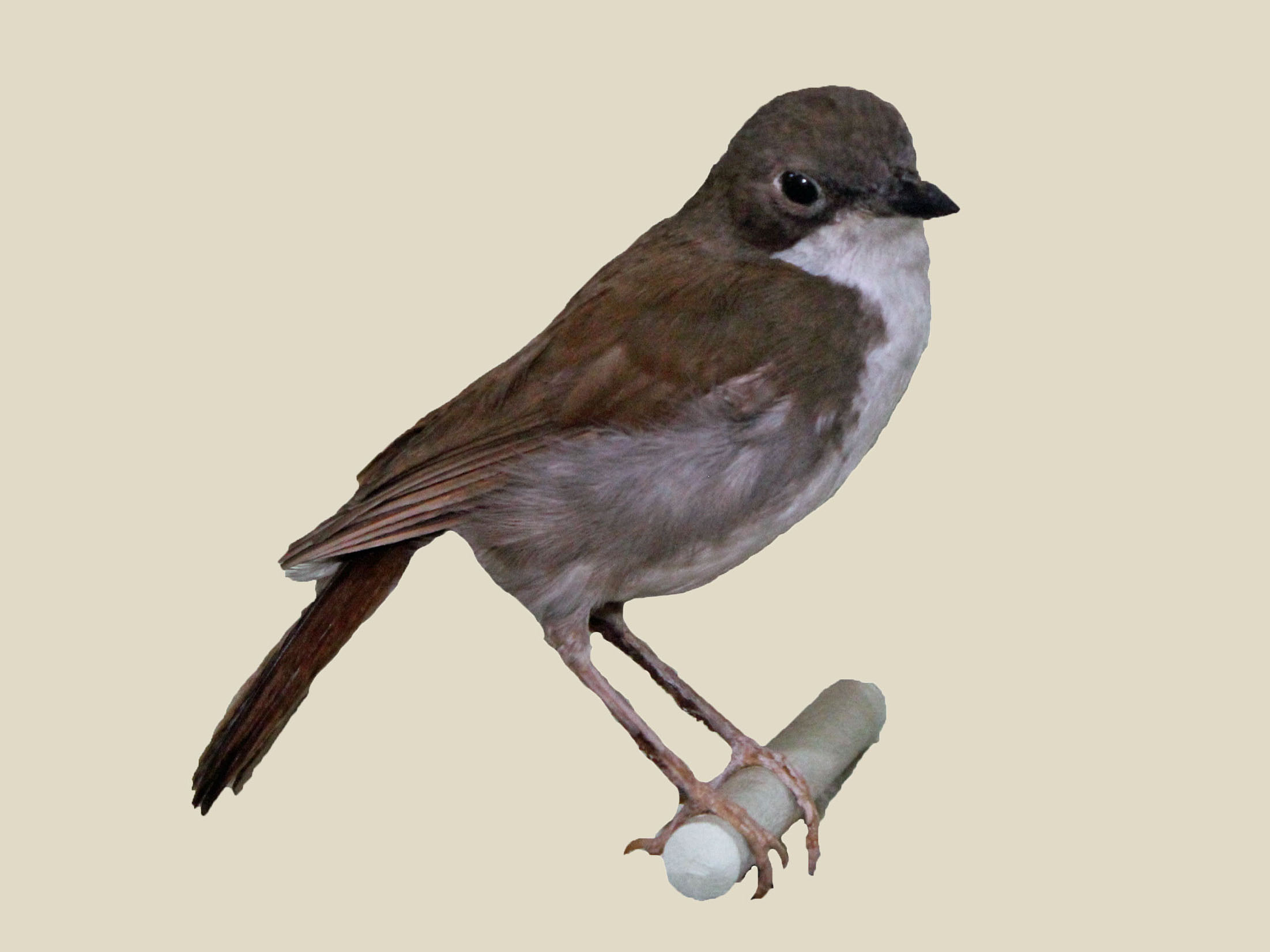 White-chested Alethe (Pseudalethe fuelleborni). Photograph of a specimen at Nairobi National Museum in Nairobi, Kenya.